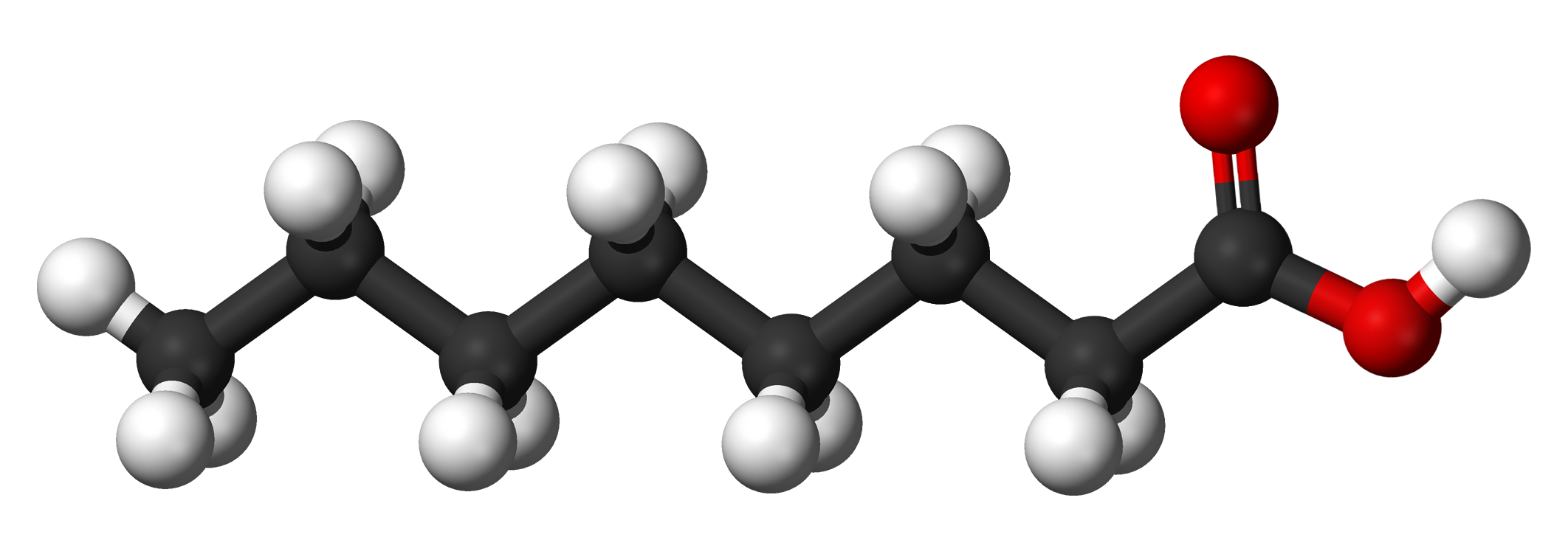 Ball and stick model of the caprylic acid molecule (also known as octanoic acid), a saturated fatty acid found in a number of animal oils and fats, including goat milk fat.